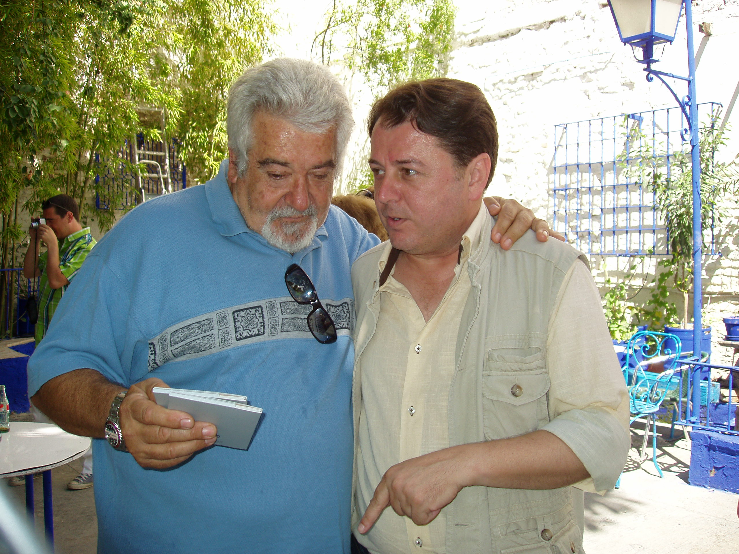 Navalón y Paco Liria